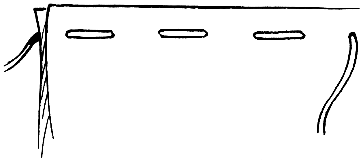 Basting